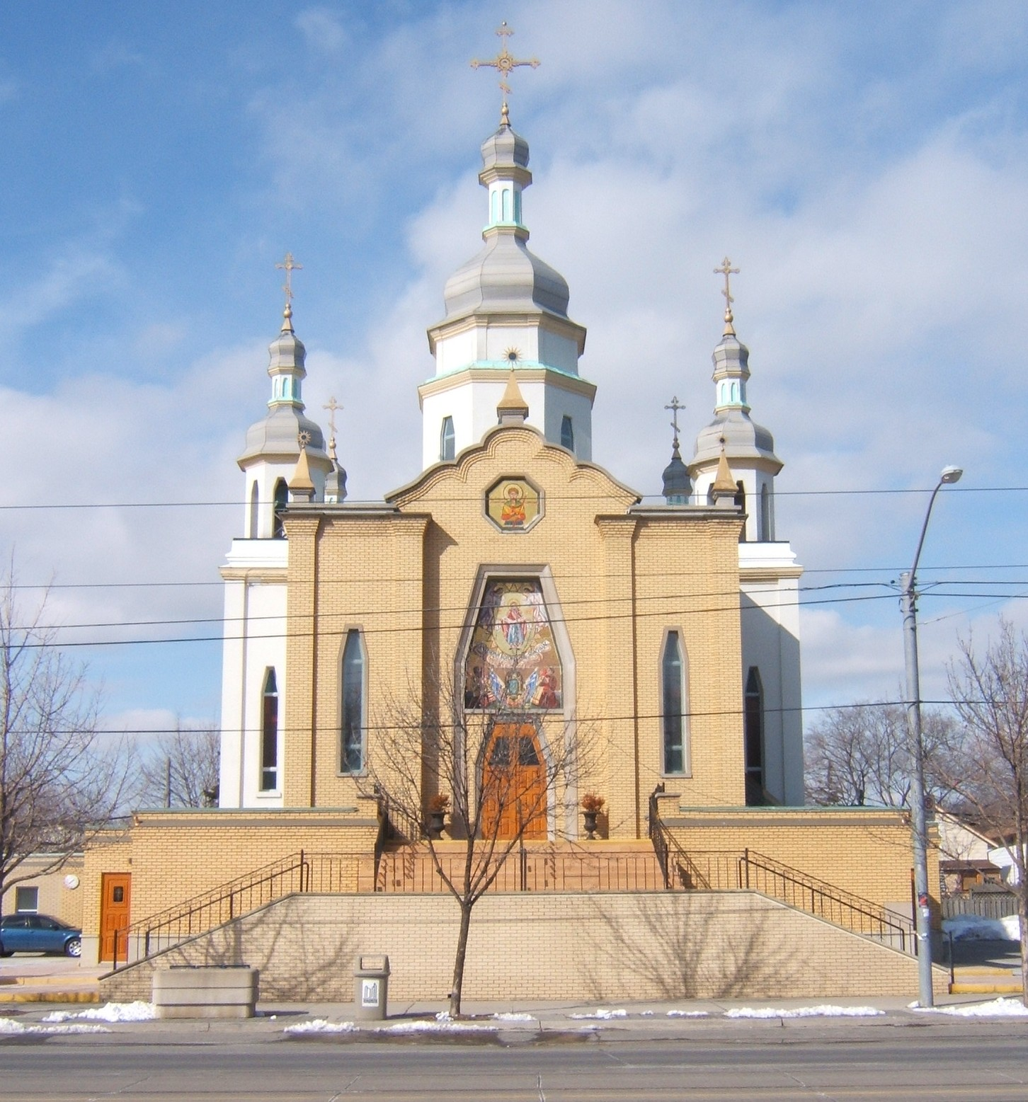 St Demetrius Orthodox Church on Lake Shore Blvd W in central Long Branch